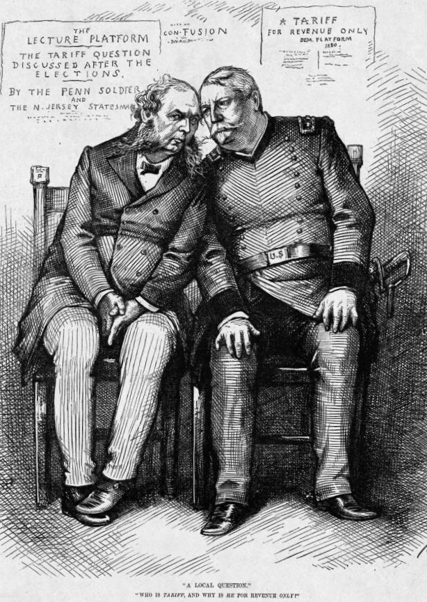 Winfield Scott Hancock and Thomas Fitz Randolph are caricatured as clueless on the tariff.